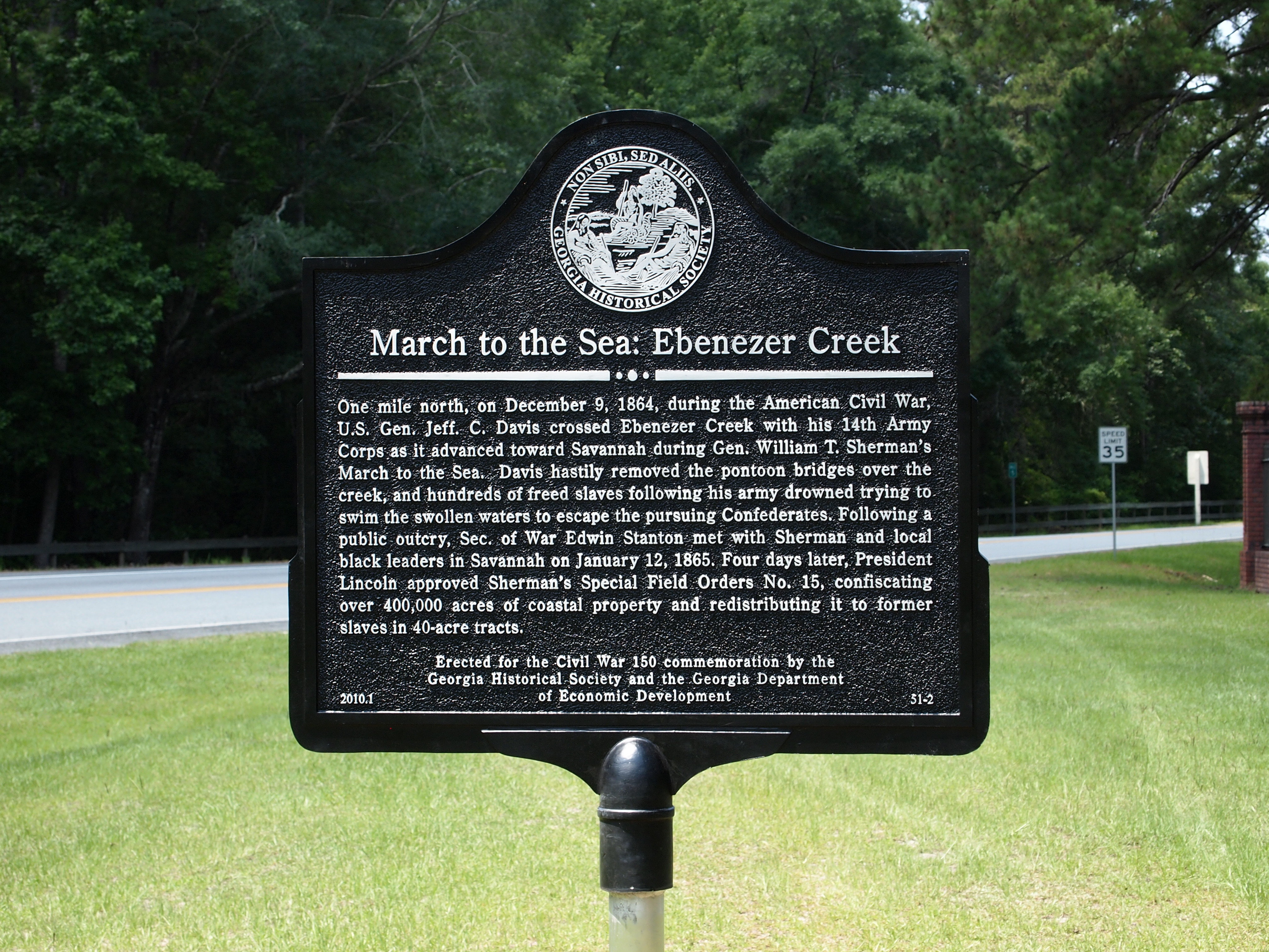 In 2010, the Georgia Historical Society dedicated a historical marker title "March to the Sea: Ebenezer Creek" near the site where hundreds of freed people drowned in 1864 attempting to cross Ebenezer Creek while following U.S. Army troops and escaping pursuing Confederate troops.